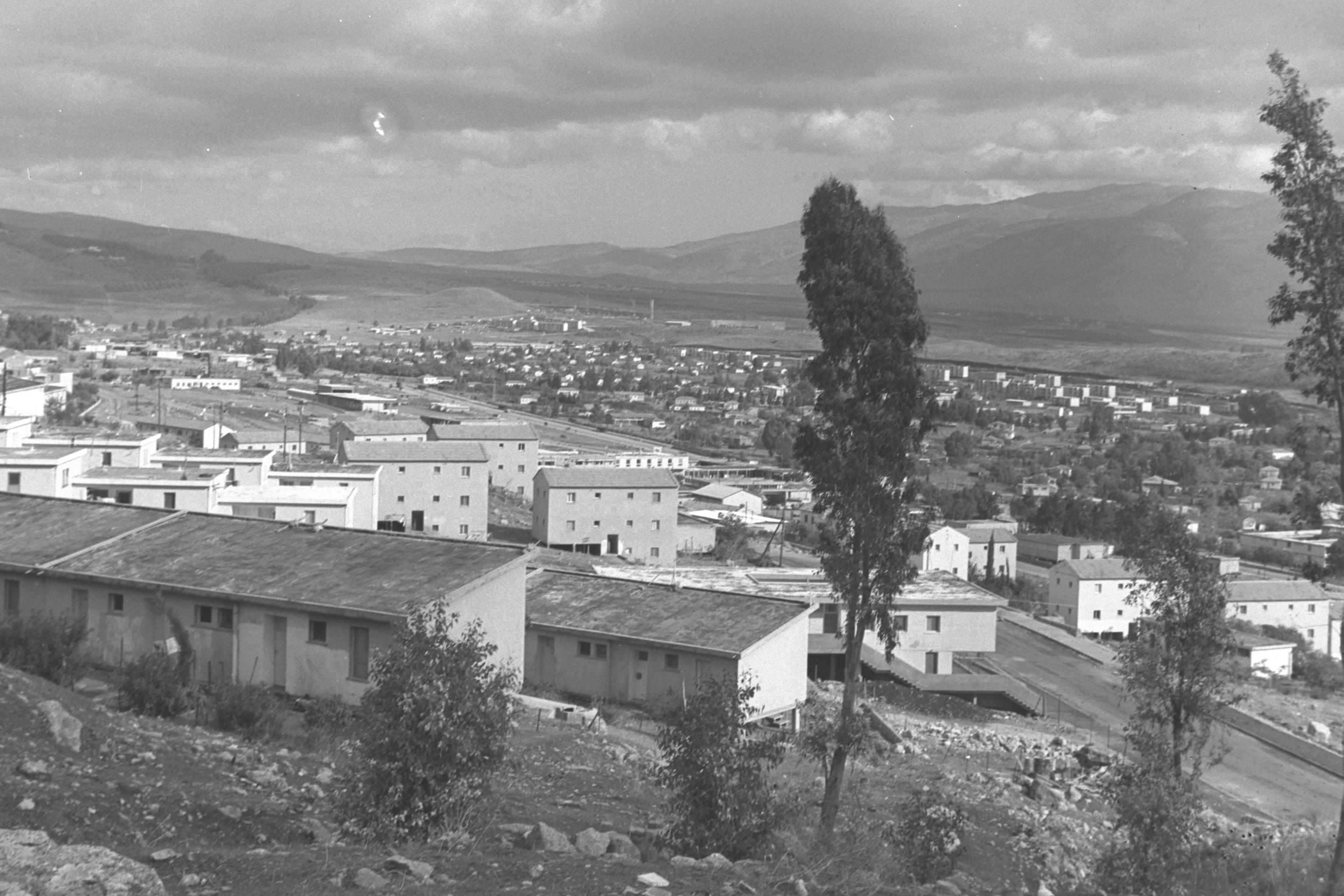 VIEW OF KIRYAT SHMONA IN UPPER GALILEE.